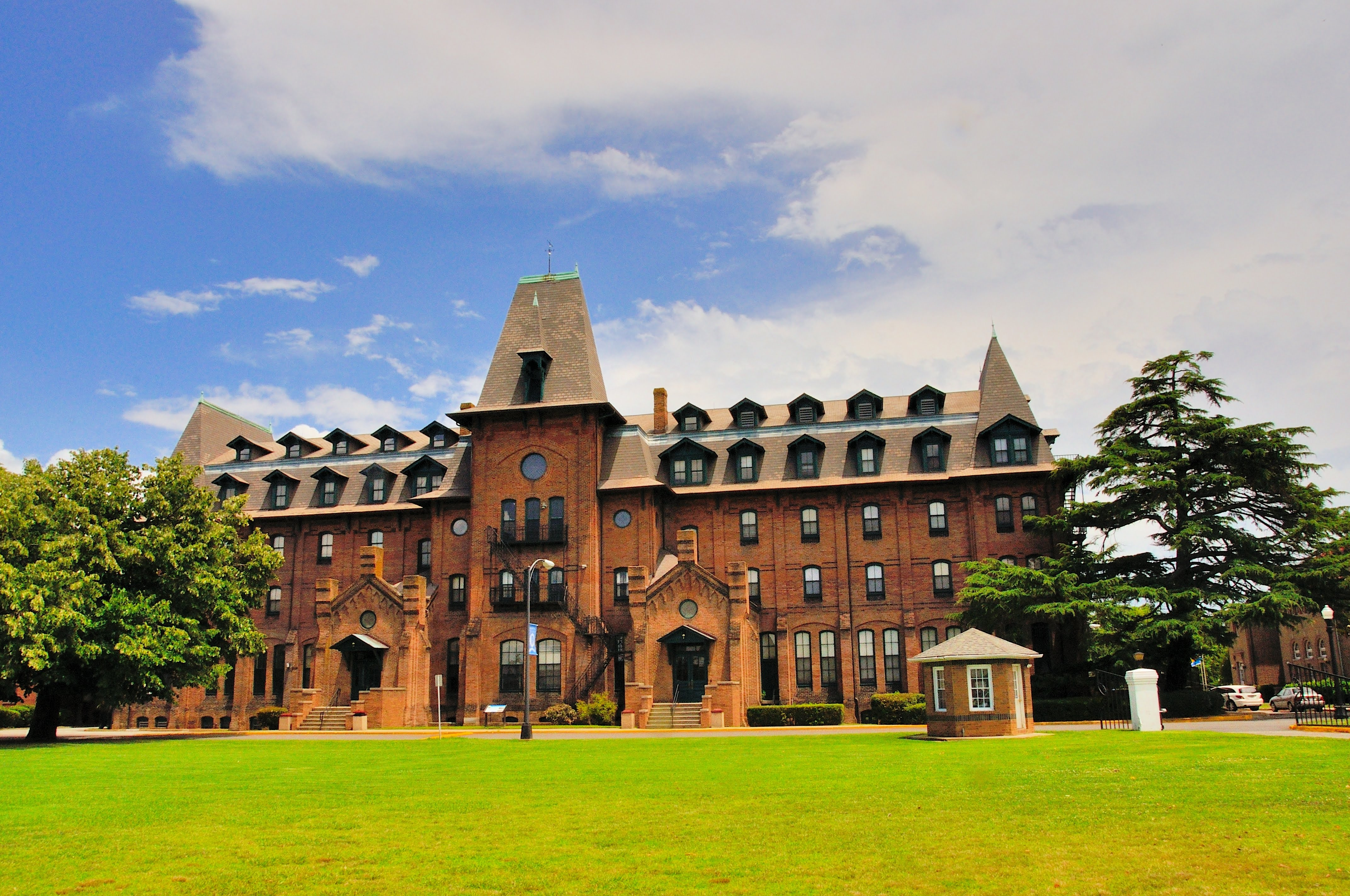 Hampton University